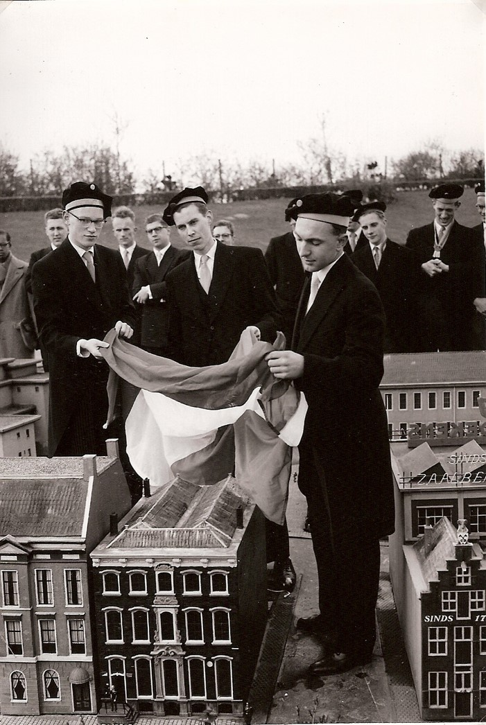 Marquette of Oude Delft 123 being revealed in Madurodam in 1957.